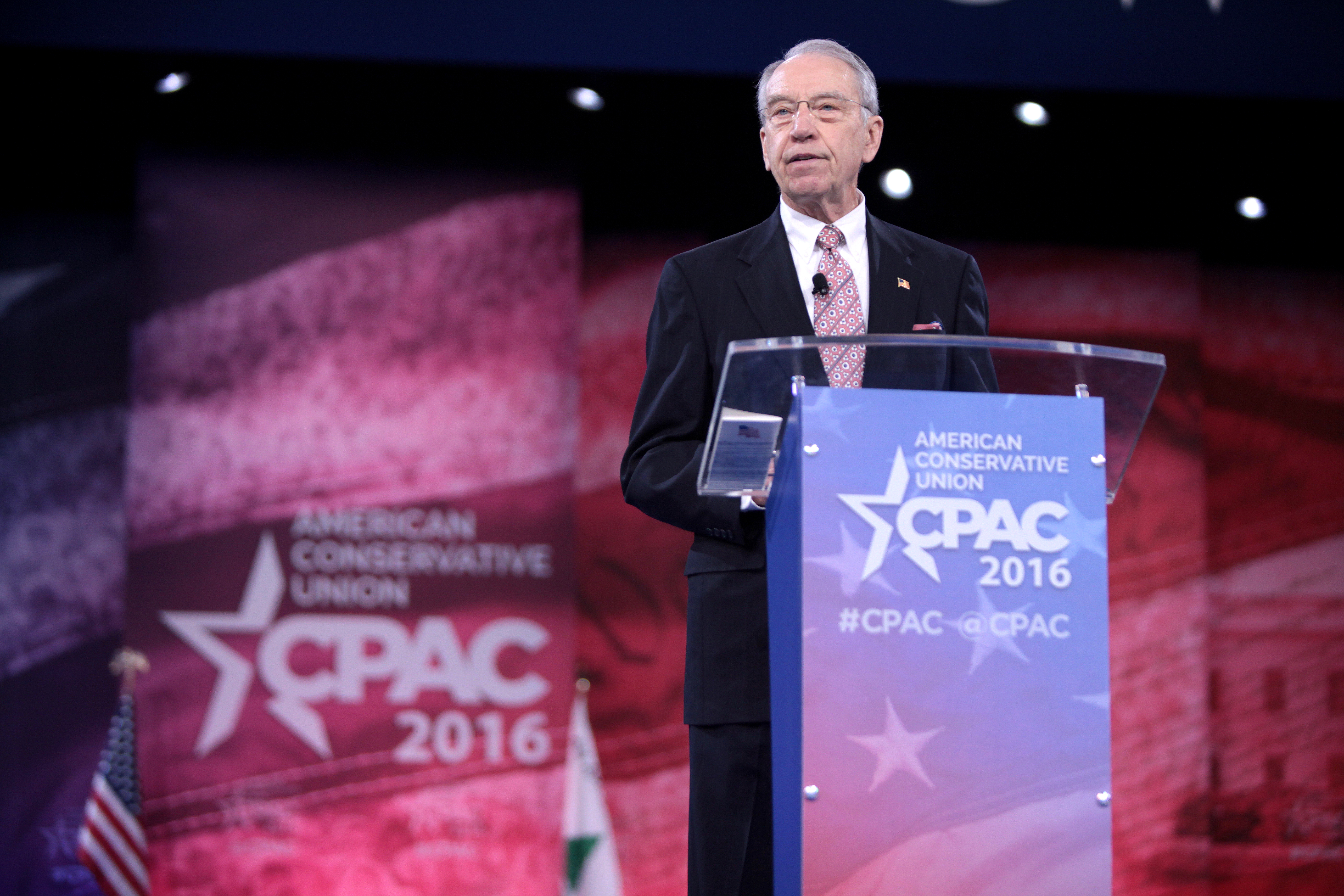 Chuck Grassley speaking at an event in Washington, D.C.